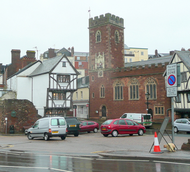 St. Mary Steps, Exeter A glimpse towards West Street from the Western Way on a damp February afternoon.